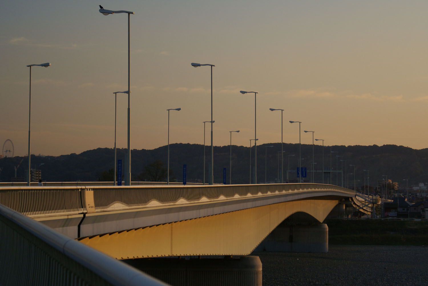 Inagiohashi bridge between Fuchu and Inagi, both Tokyo. View from Fuchu.